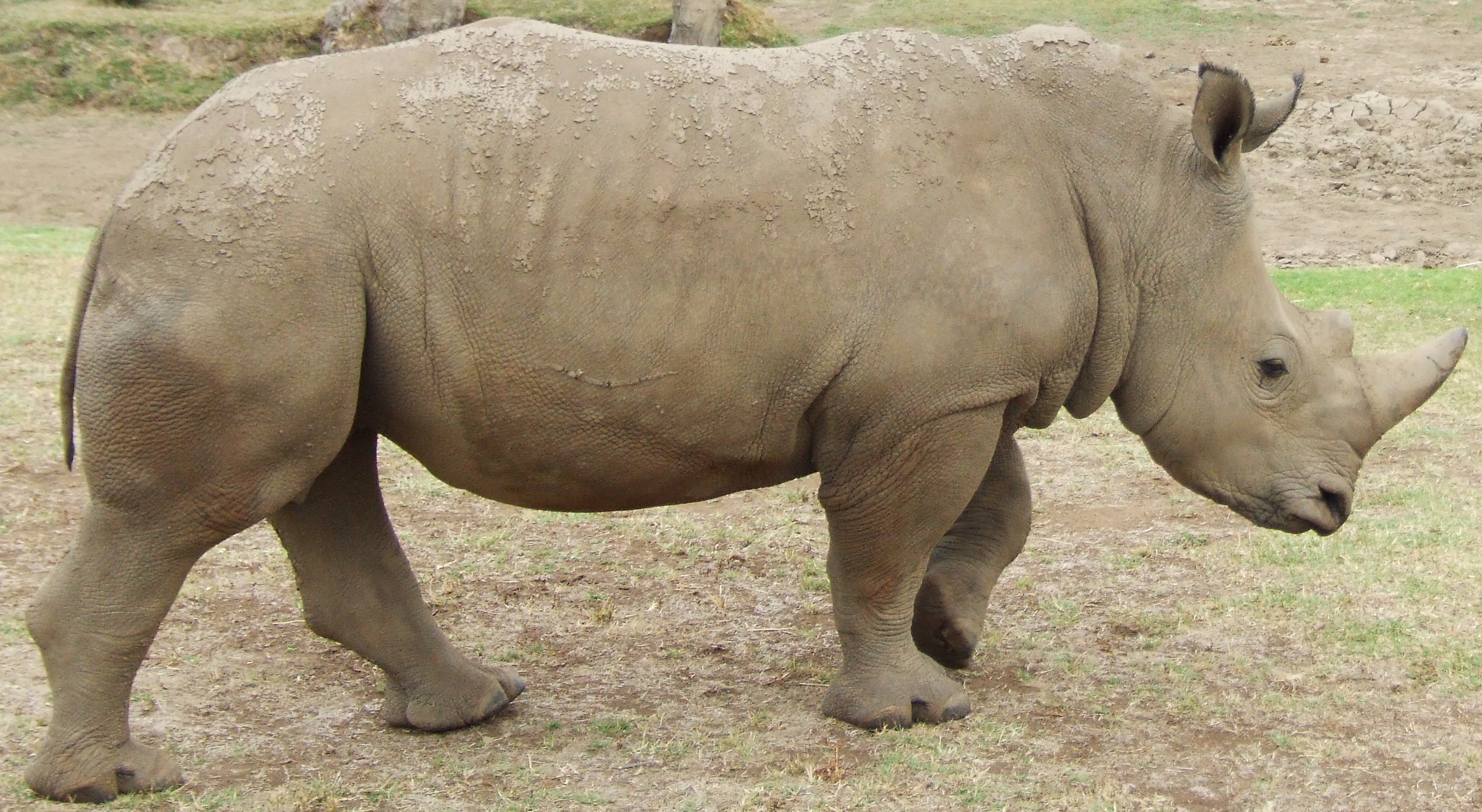 Rhinoceros from Werribee Open Range Zoo, Victoria, Australia.